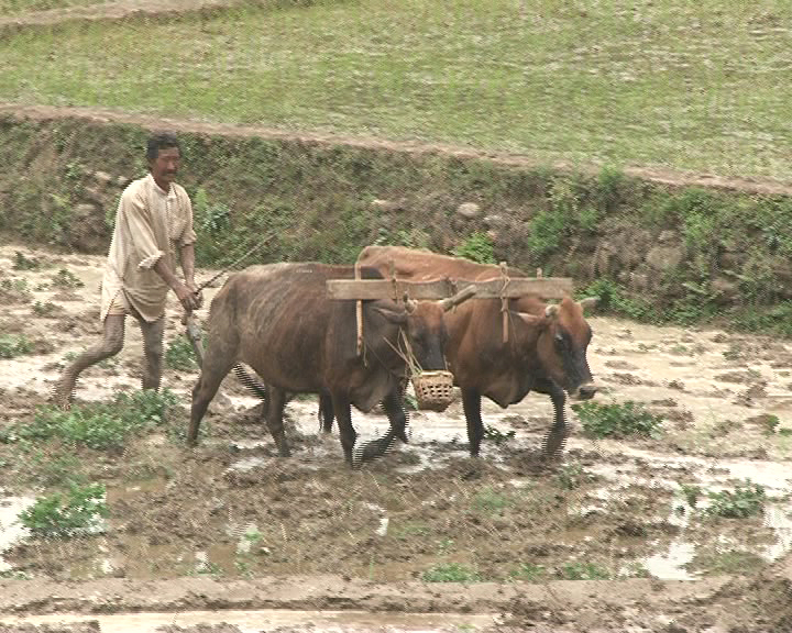 ploughing